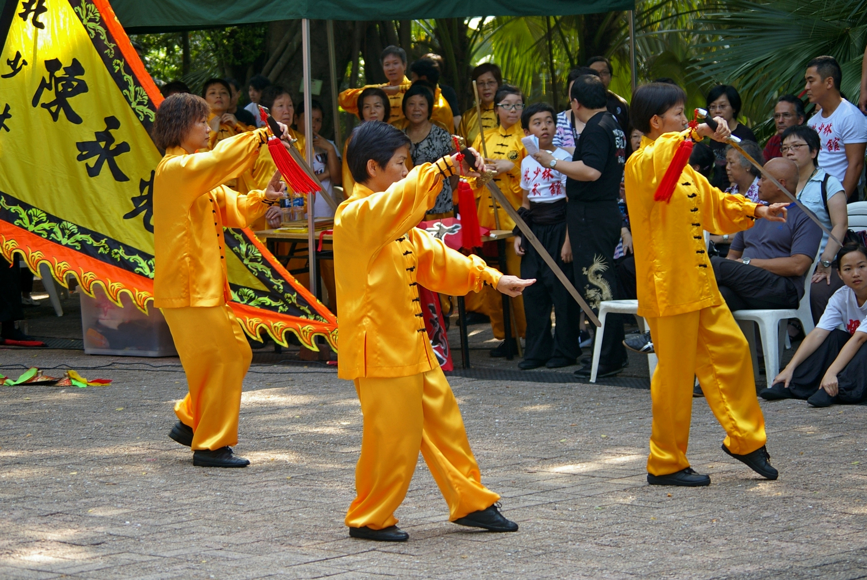 Tai chi show on Kung Fu Corner in Kowloon Park, Hong Kong